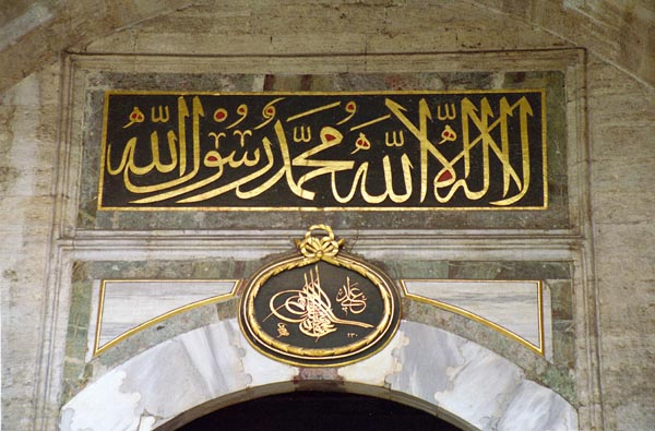 Sahadah Topkapi Palace